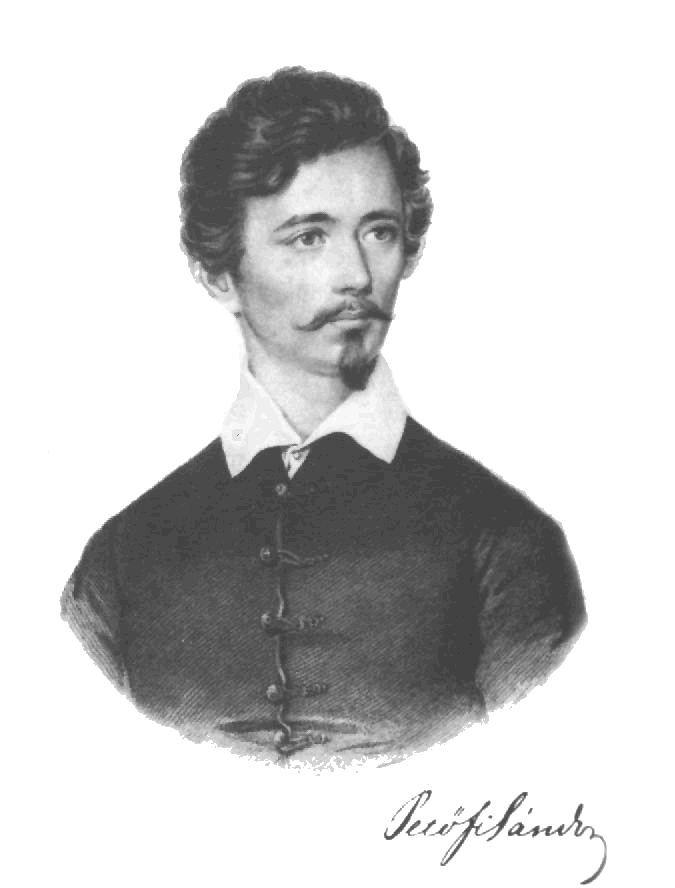 portrait of Hungarian poet Sándor Petőfi, painted by Miklós Barabás.